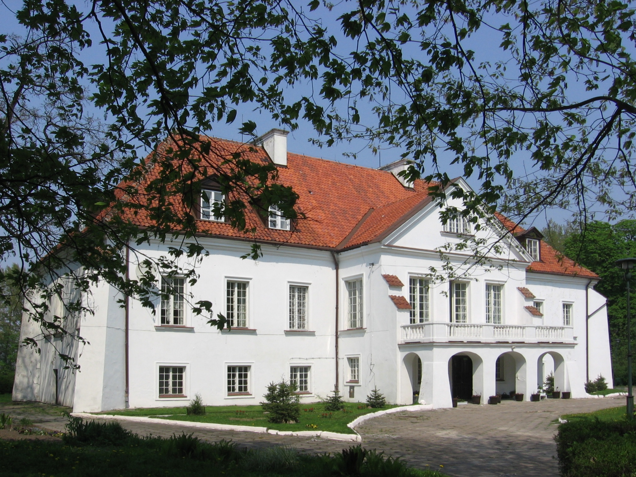 The former mansion-house of families Łubieński, later Murzynowski;[citation needed] in the village of Kalinowa, central Poland (66 km south-west of Łódź). The mansion is believed to be the location of Stanisław Moniuszko's opera "Straszny dwór" ("The Haunted Manor").[citation needed]